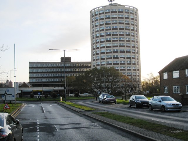 High-rise flats in Billingham The 'cylindrical' building shown in the right-hand side of this photograph is a distinctive feature of Billingham. The photograph was taken from one of the main approach roads into the town.